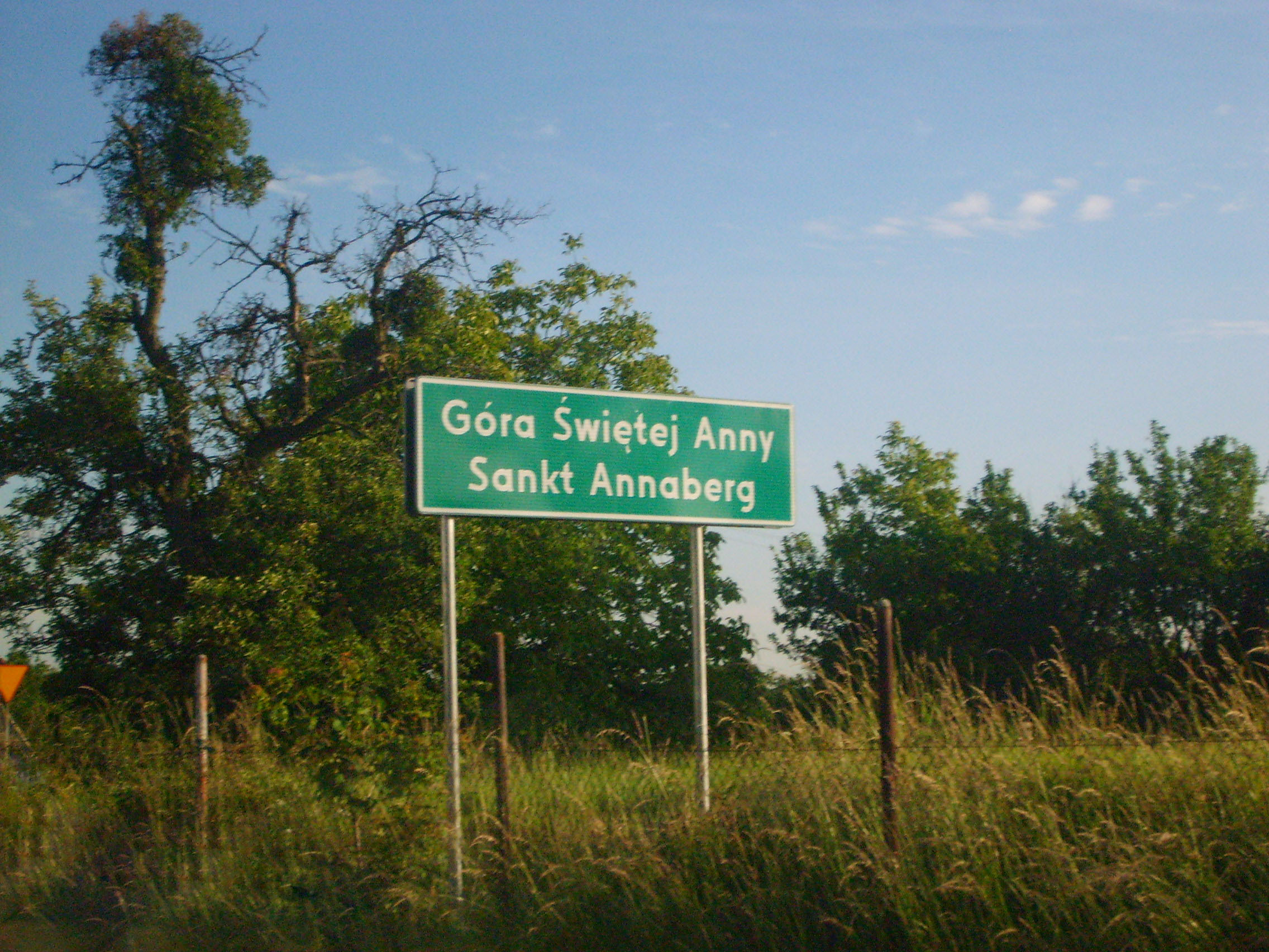 Góra Świętej Anny / Sankt Annaberg (town sign) in Opole Voivodeship, Poland.